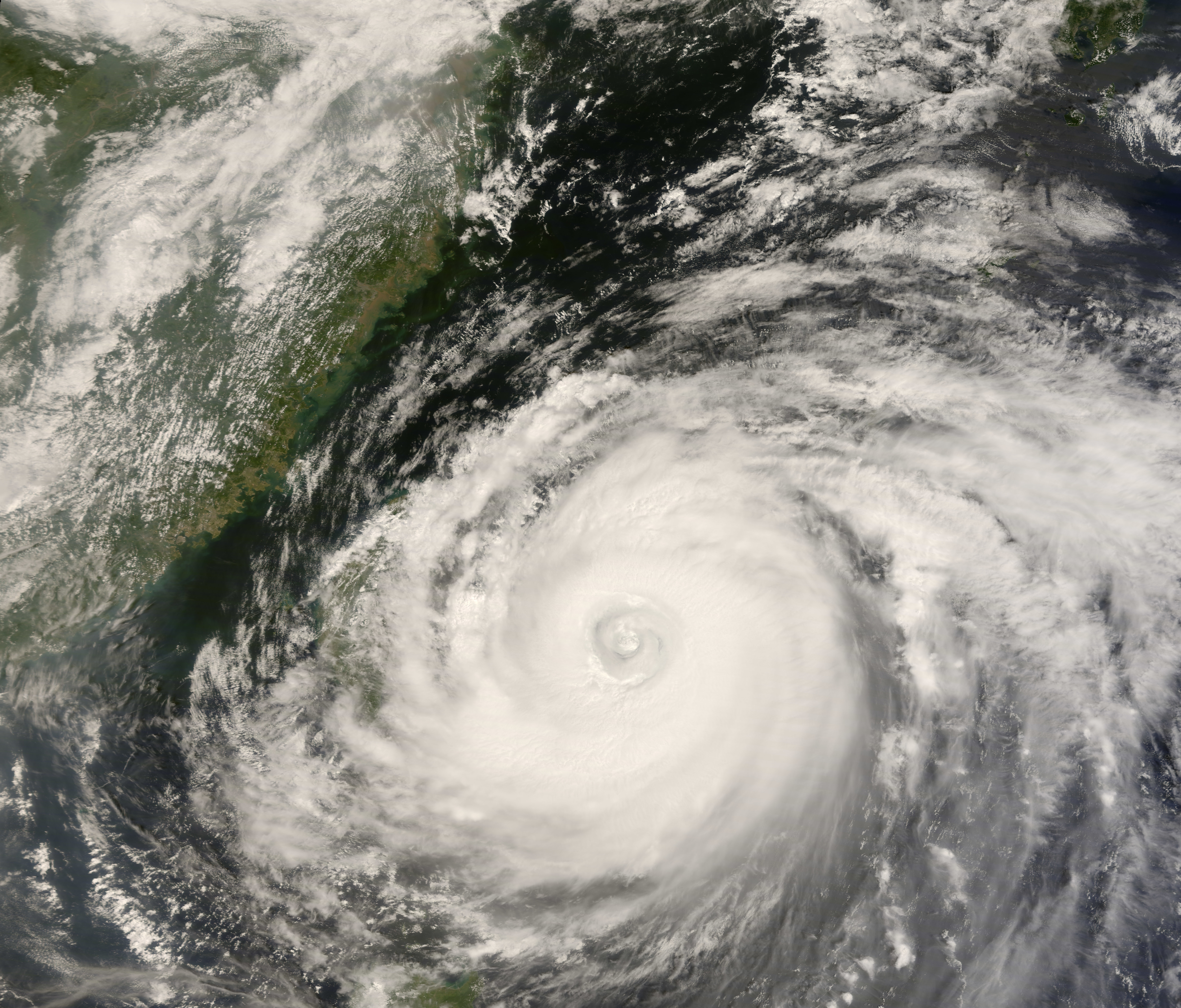 Typhoon Sinlaku (2008), as seen from Terra Satellite on September 12 2008.